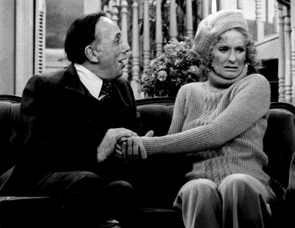 Photo of Cloris Leachman as Phyllis Lindstrom and Henry Jones as her stepfather-in-law, Judge Jonathan Dexter from the television program Phyllis.